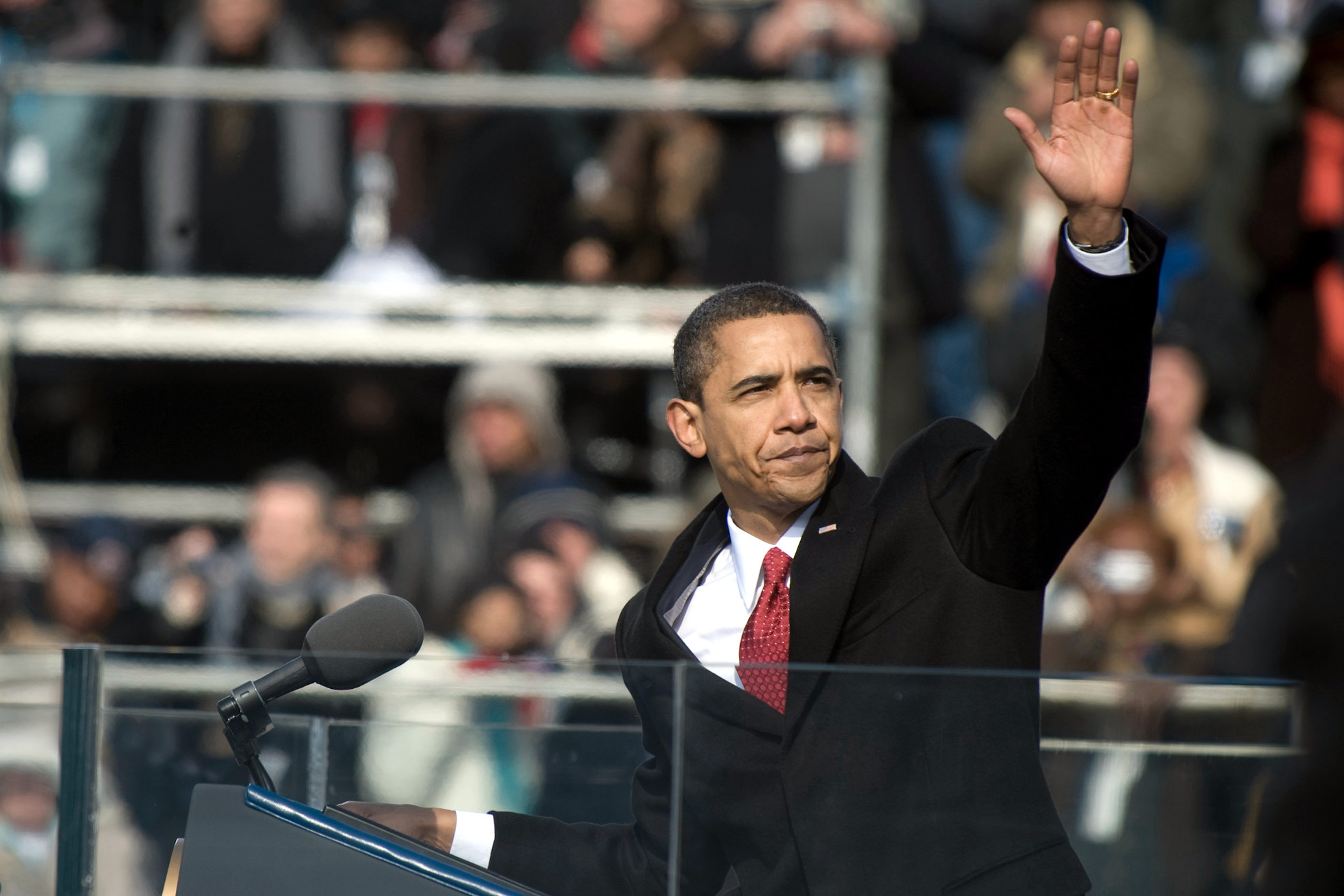 President Barack Obama waves to the crowd at the conclusion of his inaugural address, Washington, D.C., Jan. 20, 2009. The 44th president of the United States assumed his duties as commander in chief and vowed not to waiver in defending America.